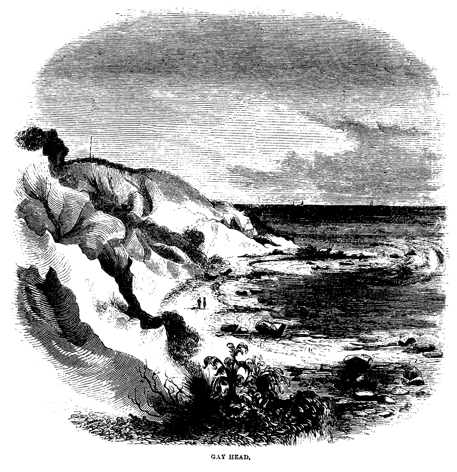 Engraving of Gay Head (Martha's Vineyard) by David H. Strother, September 21, 1860 issue of Harper's New Monthly, p. 447.